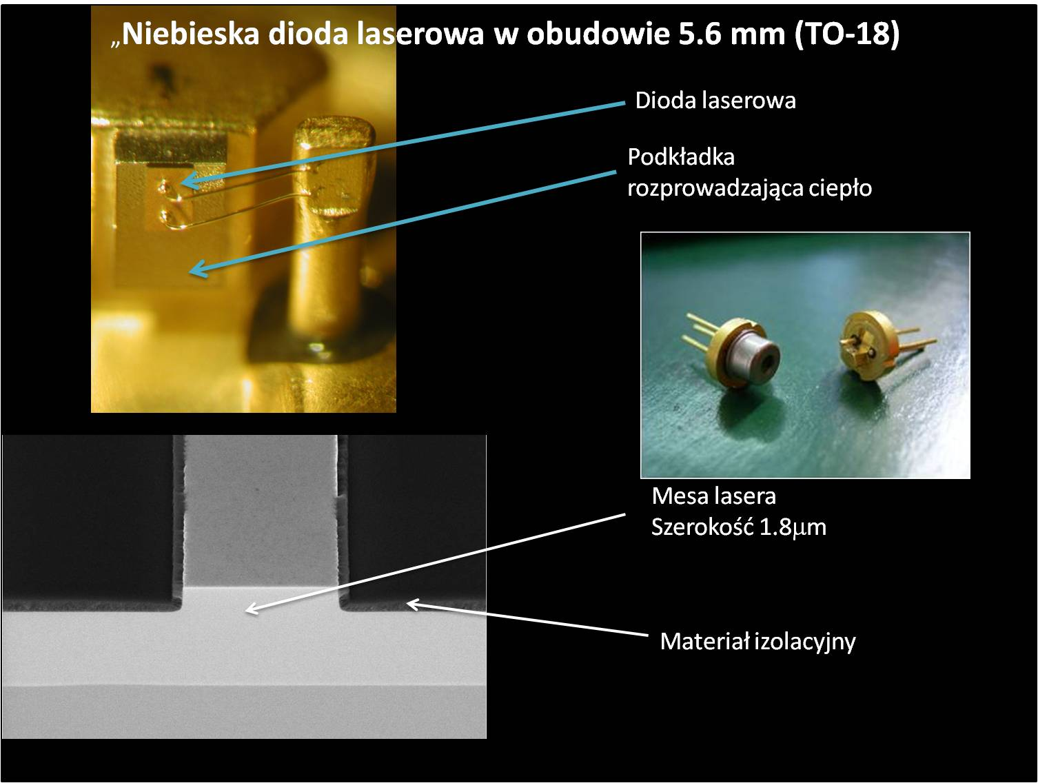 5.6 mm laser package